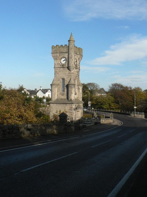 Brora: war memorial clock tower and A9 The A9 passes this war memorial on its way down to the River Brora. It crosses the river at the bend in the road in the distance.